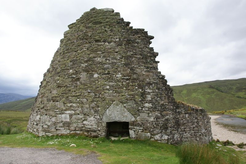 Dun Dornaigil, a broch in Sutherland, Scotland